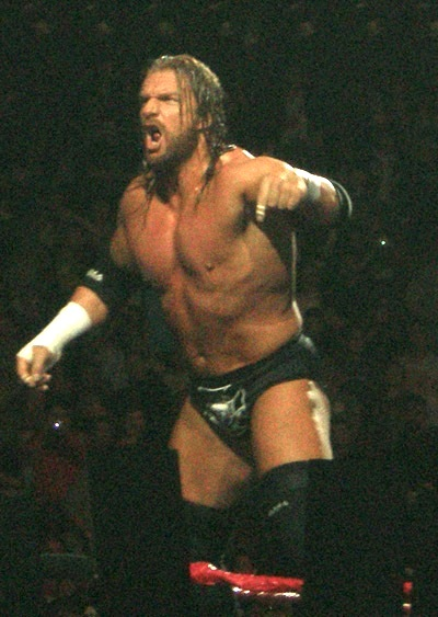 Description on flickr: "Triple H @ Sydney, Australia 'RAW' house show on the 9th of November '07"